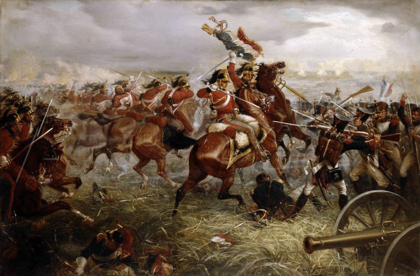 The 1st Dragoons capturing the Eagle of the French 105th Line Infantry Regiment at the Battle of Waterloo